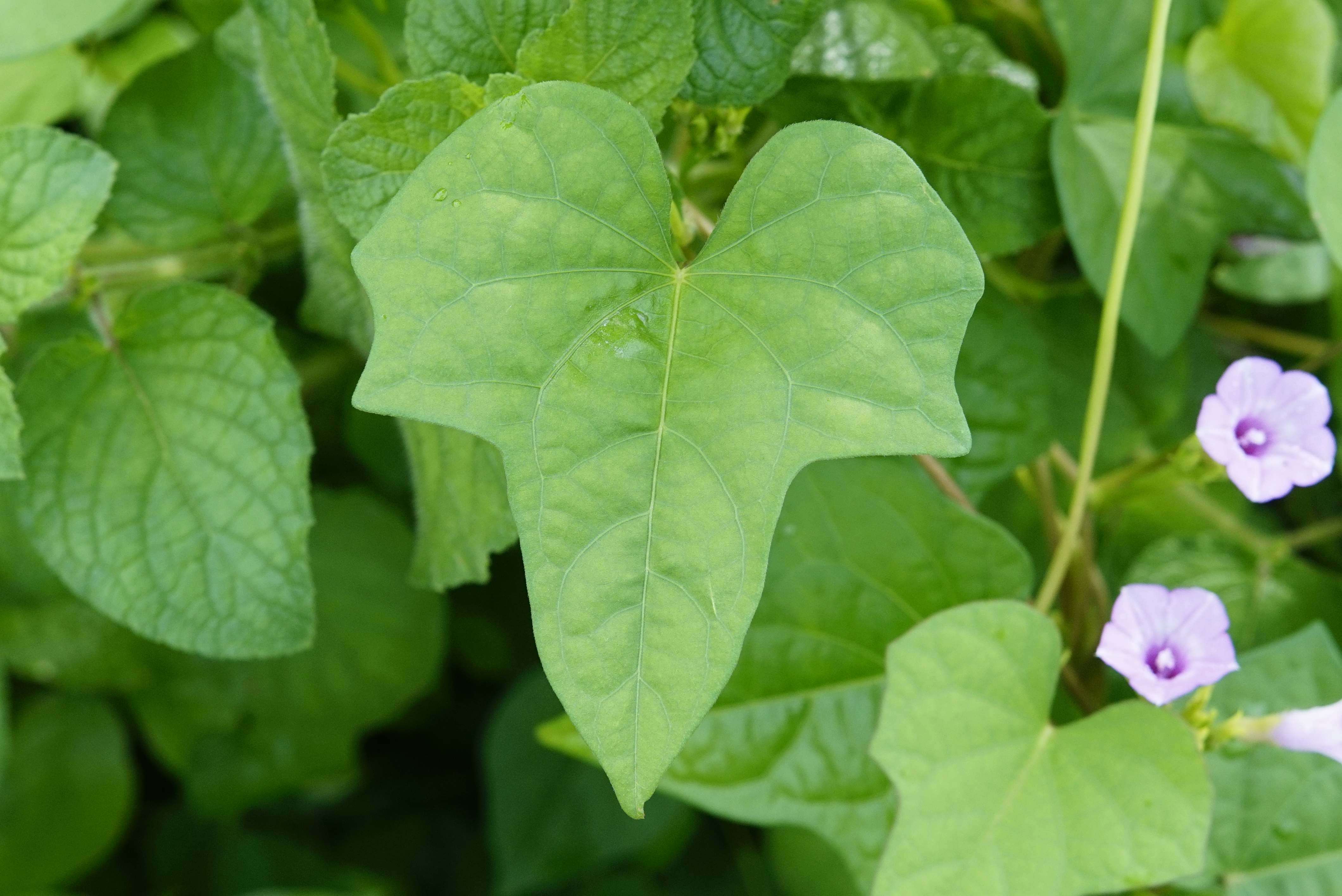 Plantlife